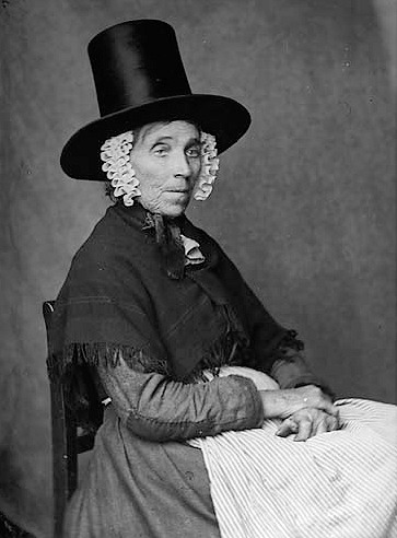 1 negative : glass, wet collodion, b&w ; 11 x 8.5 cm.